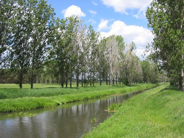 Lowland and river Nuthe between the villages Ahrensdorf and Märtensmühle. The villages are parts of the municipality Nuthe-Urstromtal in Brandenburg, Germany